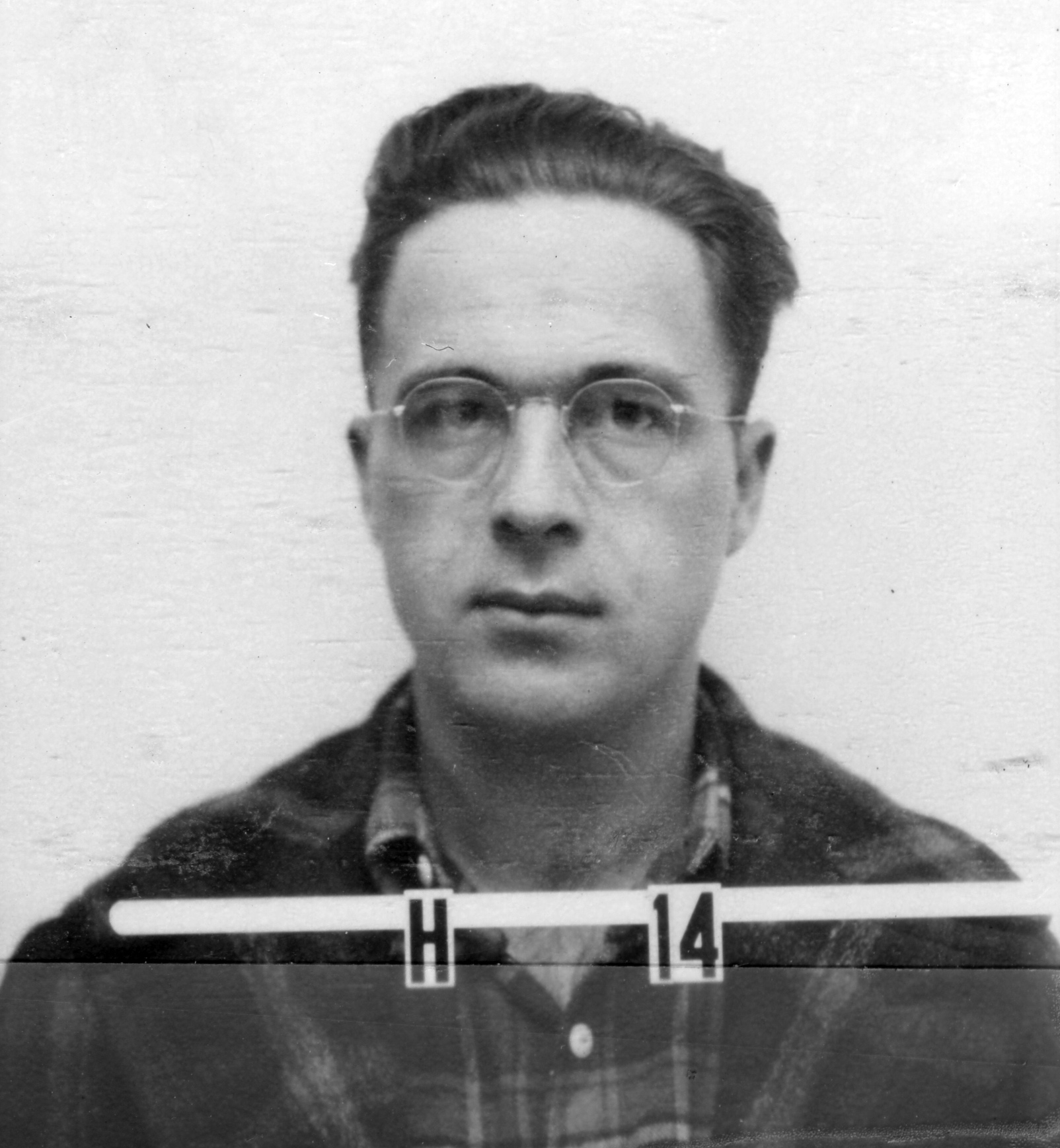 Raemer E. Schreiber Los Alamos wartime security badge.